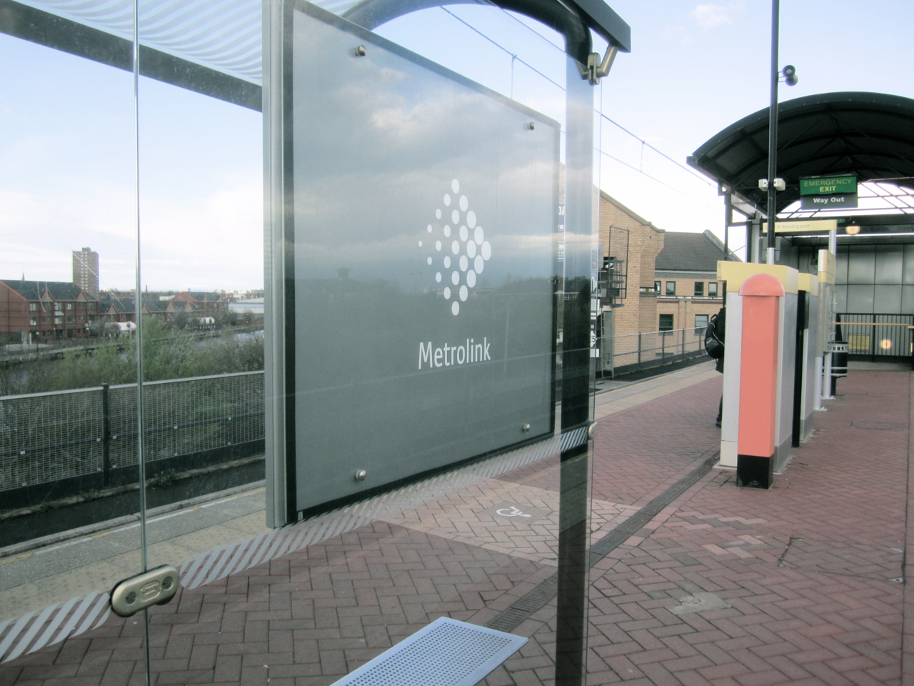 Metrolink branding at Pomona station